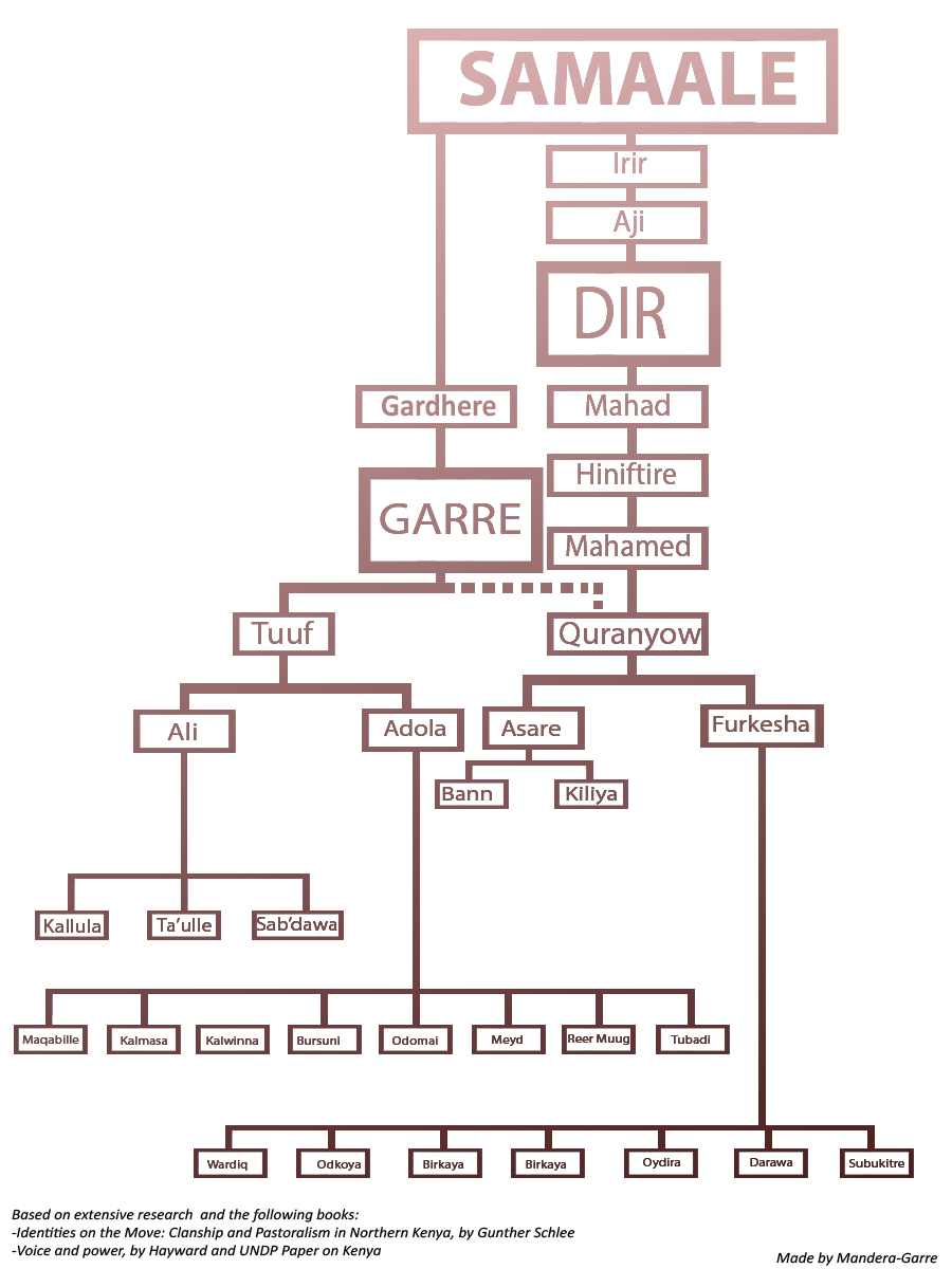 The genealogical clan tree of the Garre. The Garre split in 2 great sub-clans, Tuf and Kuranyo. The Kuranyo are Garre by marriage. Kuranyow married Tuf daughter Mako and became part of the Garre confederation. The Tuf are further divided into the Ali and Adola groups, the Kuranyo are further divided into the Asare and Furkesha groups Kuranyo(Quranyow) who was married to Tuf's daughter , genealogically descends from Dir son of Irir son of Samaale. The Garre also descend from Samaale.